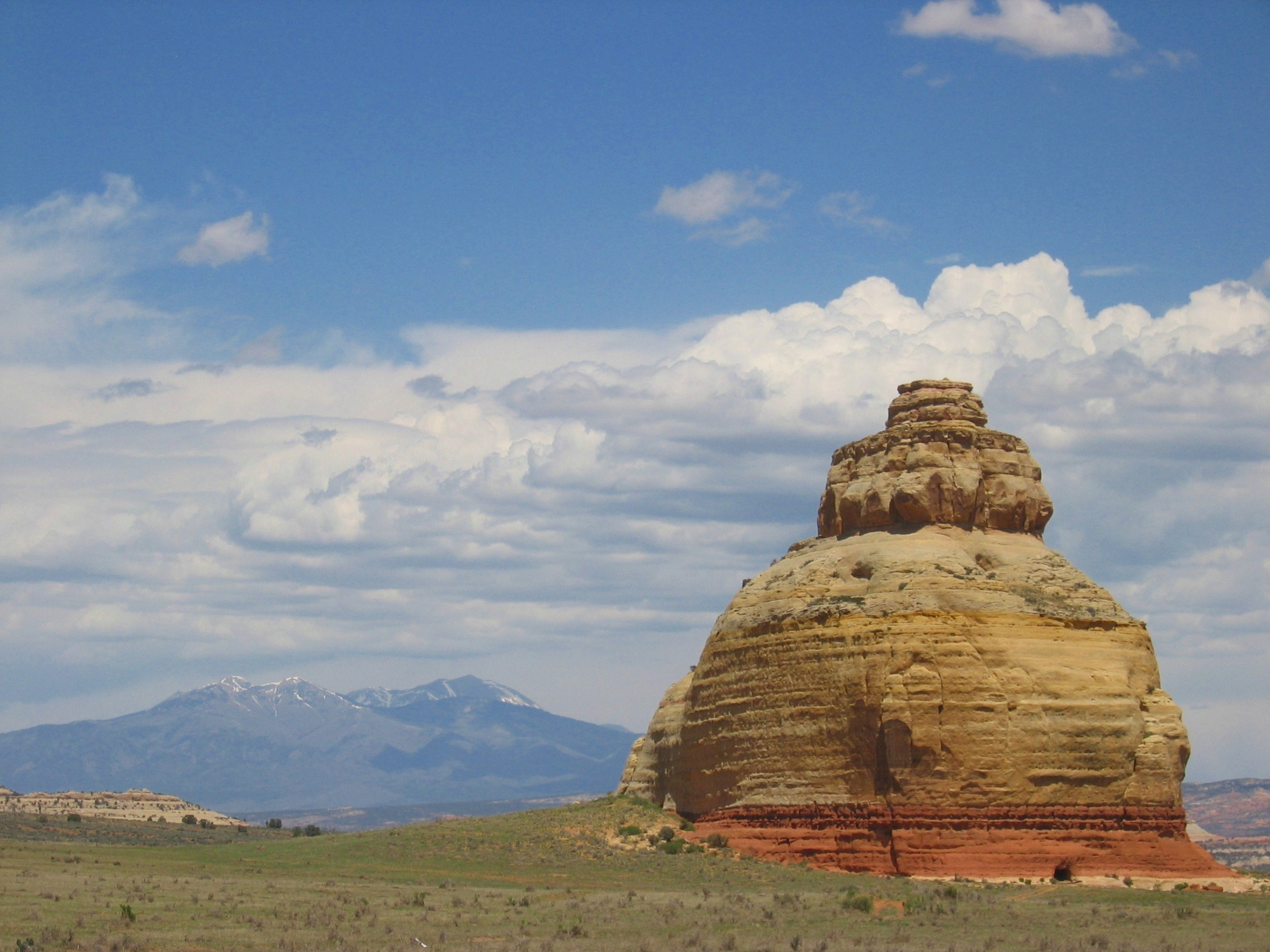 Photo of Church Rock. It is located about 17 miles south of Moab.